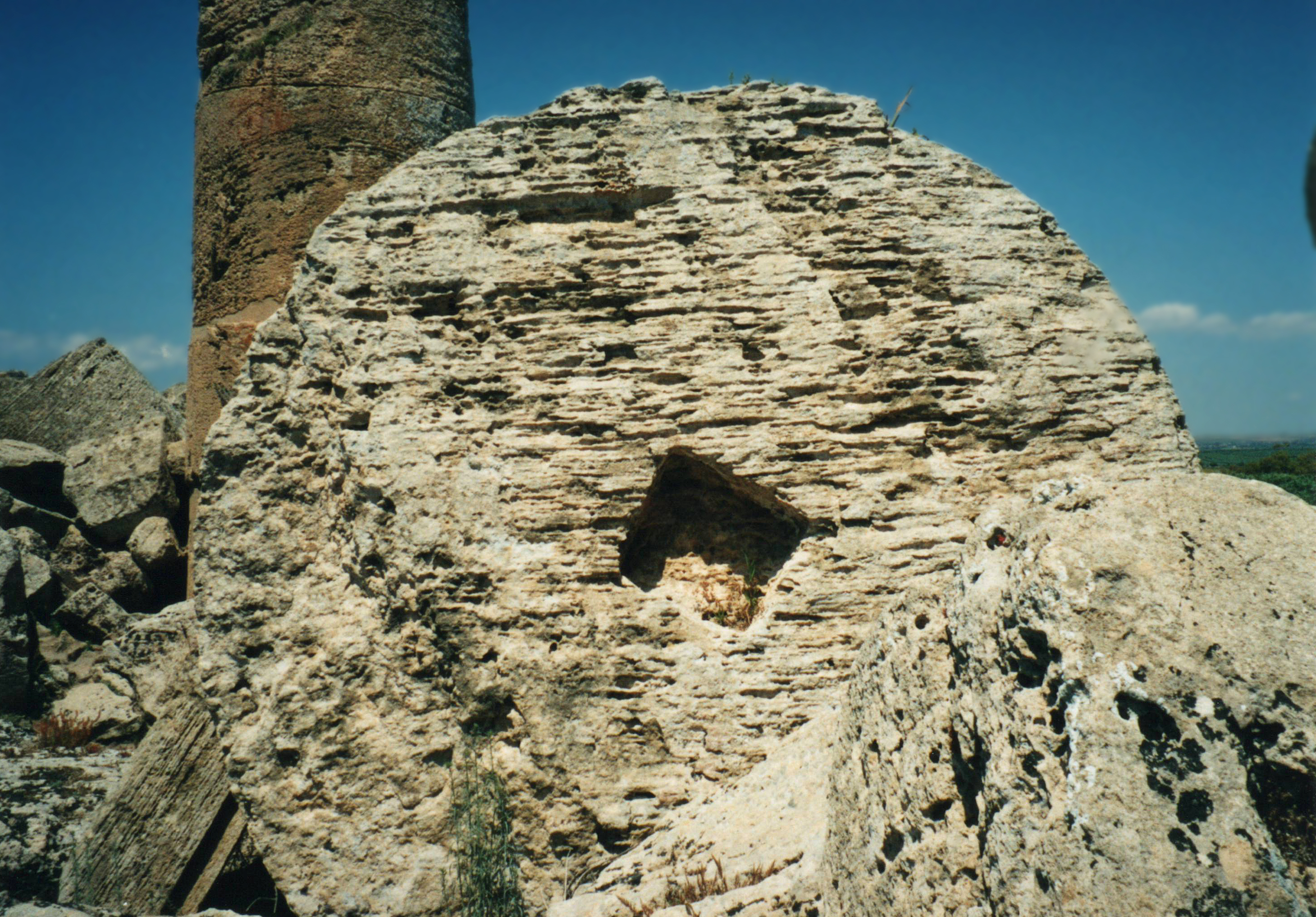 Column construction. Selinunte, Sicily, 1998 To make a Greek column shaft, cylindrical sections called "drums" are cut separately and then joined together from bottom to top. To attach one drum to another, a square wooden peg (empolion) is inserted into a hole (photo, left) in the center of a drum. Upon wetting, the wood swells and grips the stone securely. A small circular hole is drilled into the peg. An upper drum is prepared the same way. A short wooden dowel is inserted into the empolion on the lower drum. Finally, the upper drum is lowered onto this assembly (see illustration), and the two drums are ground together until their surfaces fit smoothly.